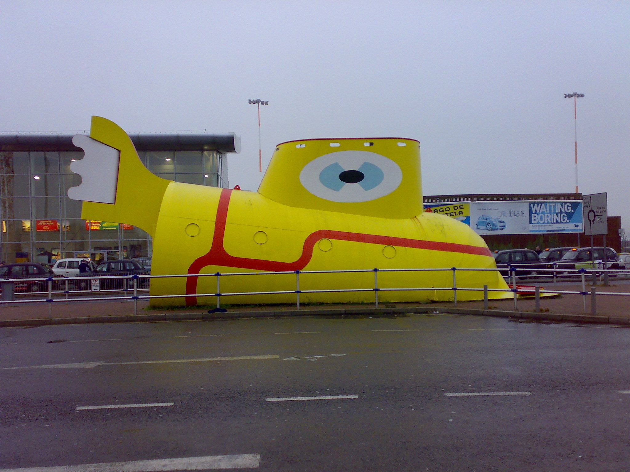 An image of the Yellow Submarine model at Liverpool Airport in November 2007.